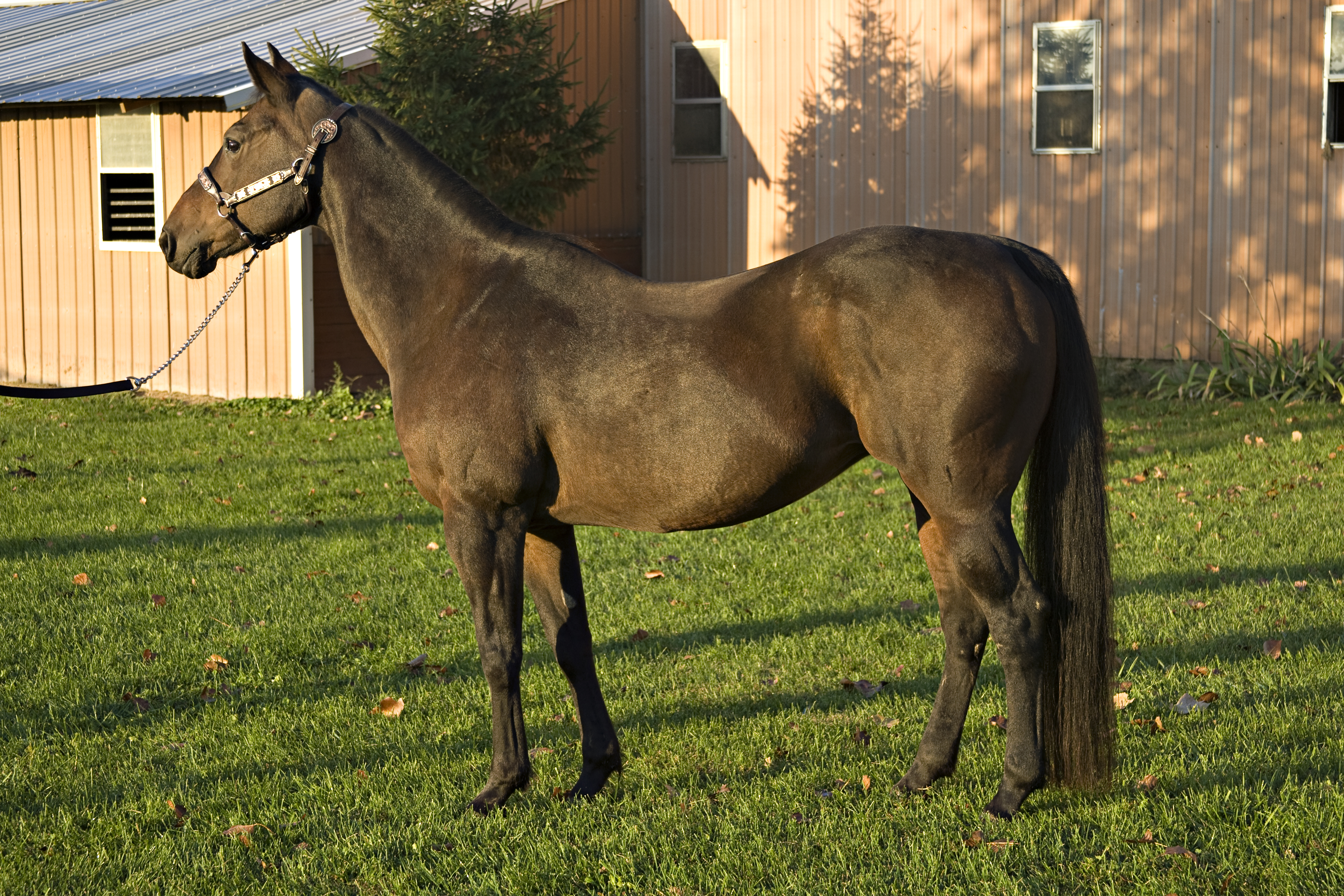 Quarter Horse type mare, older, side conformation shot.